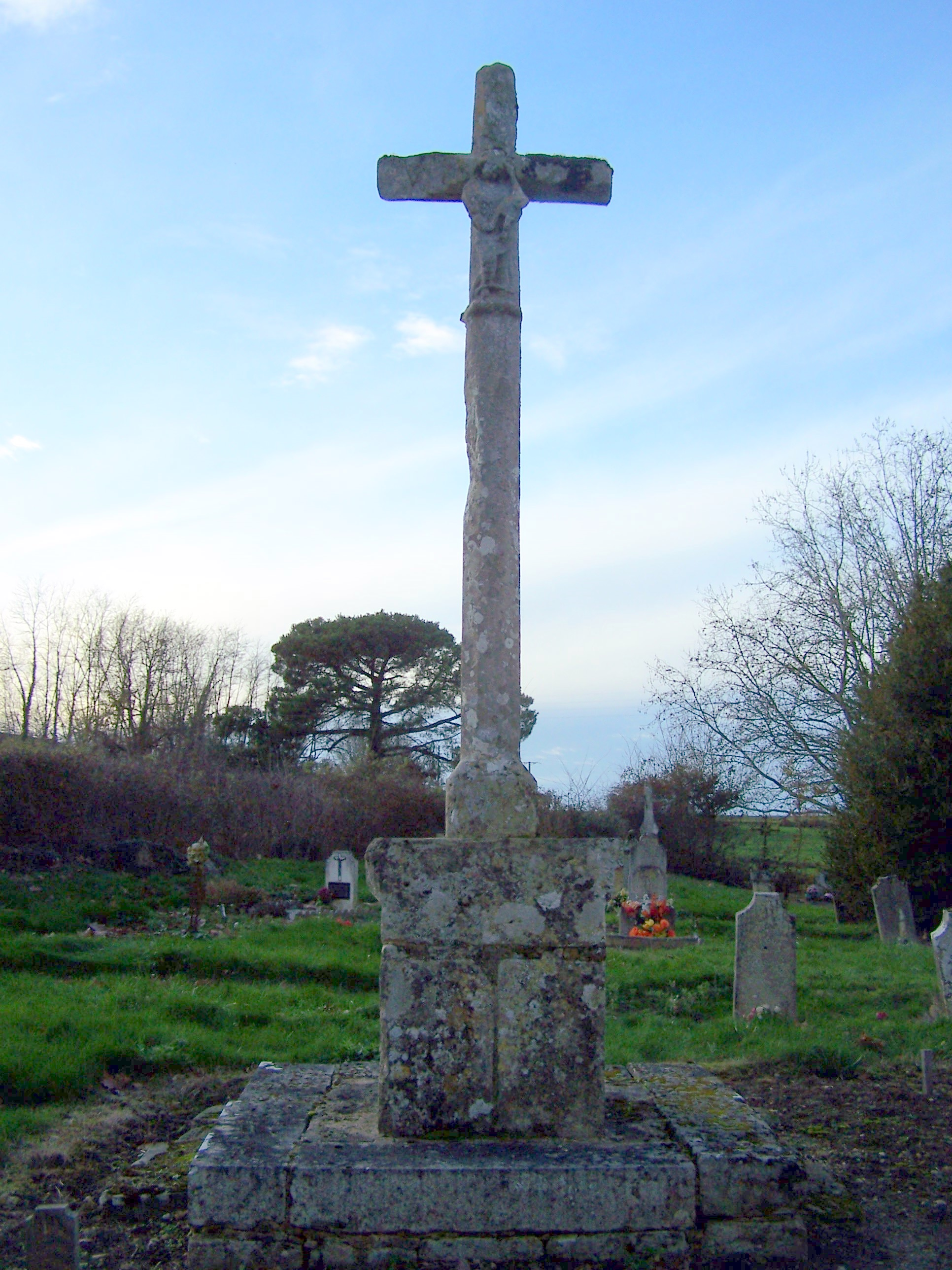 Cross in the yard of to the church of Aillas-le-Vieux in Sigalens (Gironde, France)